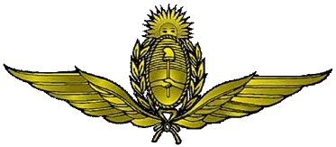 Emblem of the Argentine Air Force.